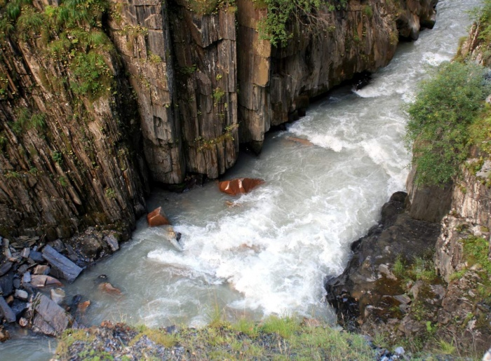 The Enguri river in Svaneti